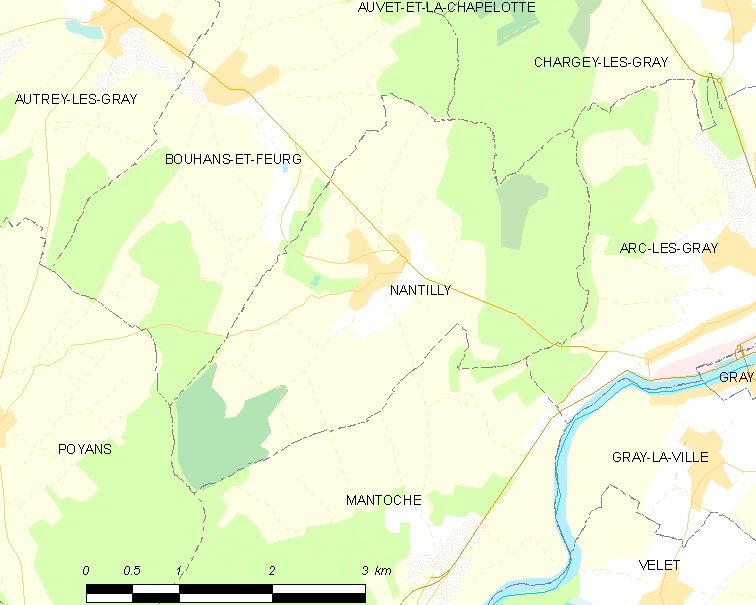 Map of French municipality